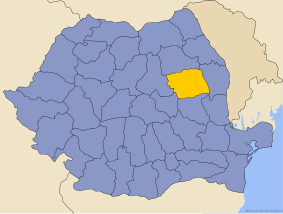 Location of Bacău County in Romania.